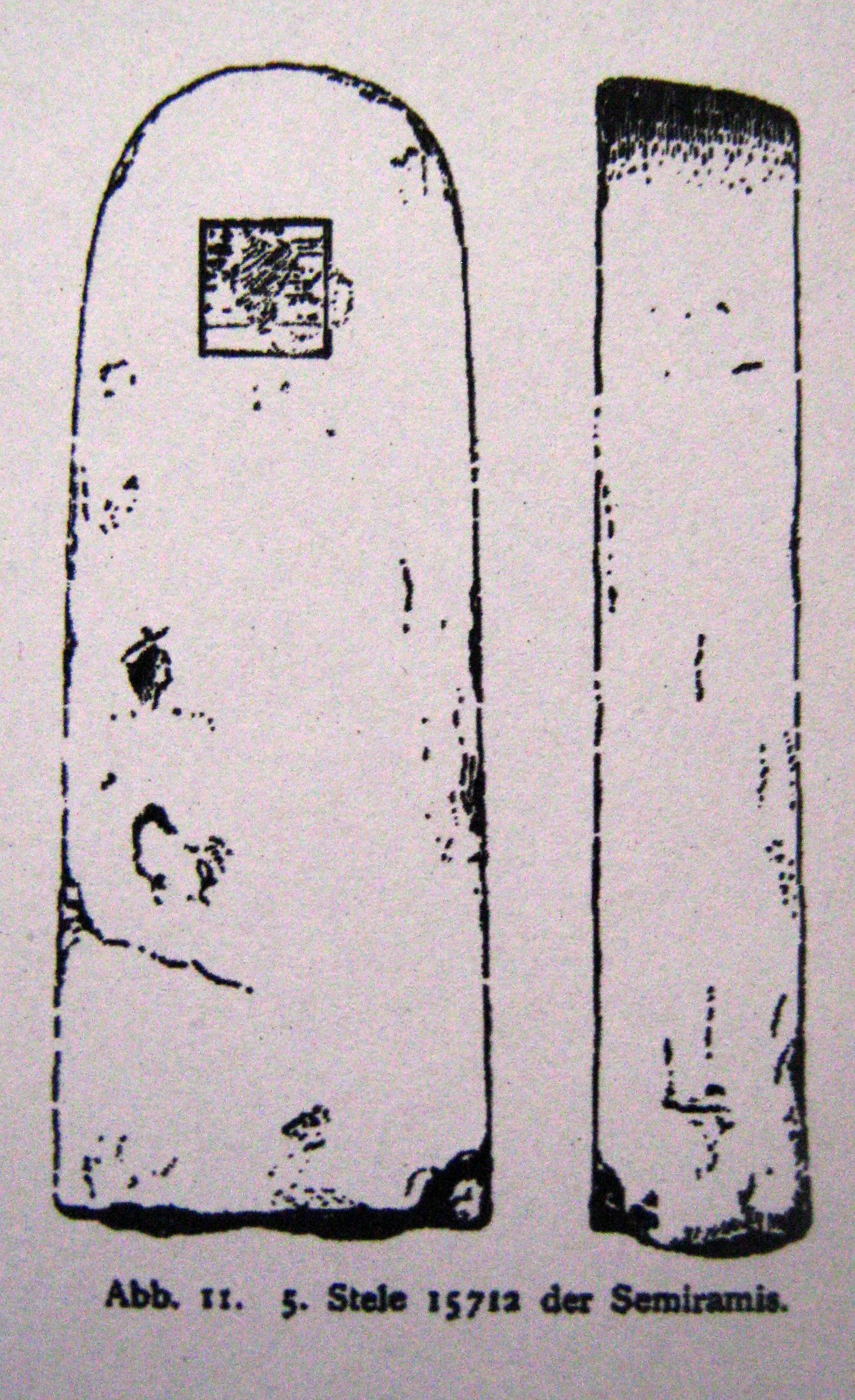 Stele of Assyrian Queen Sammuramat, from Assur